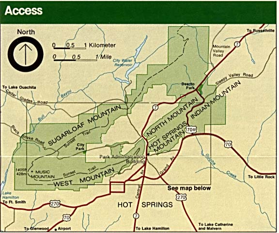 Hot Springs National Park area and access map, originally listed as a work of the national park service at